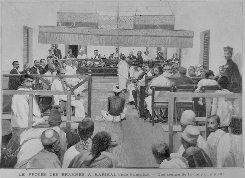 A session of the criminal bench of the Karikal Court (French India) in 1895. A series of ceiling punkahs are activated by the man seated on the floor. Photograph in a French magazine in 1895.